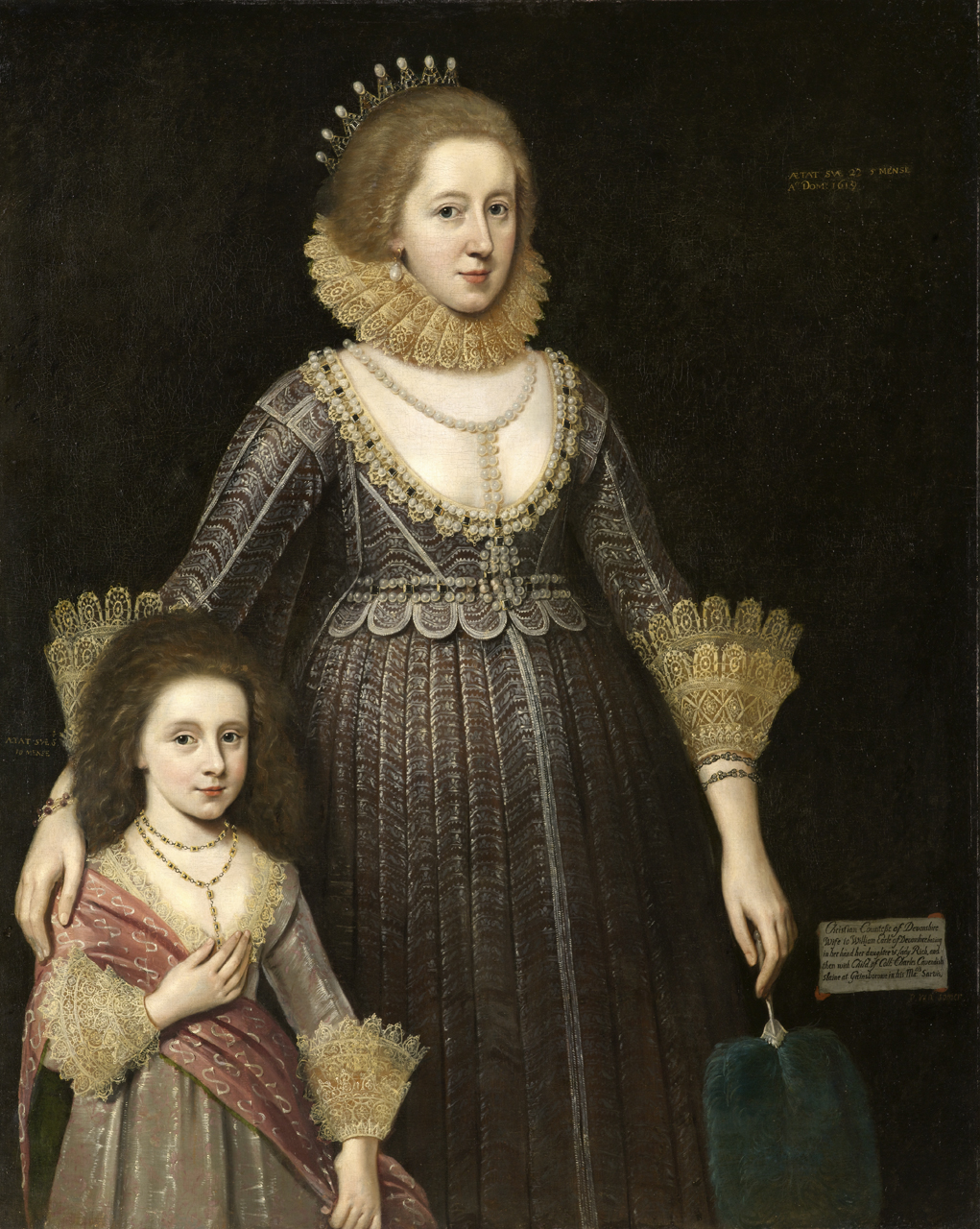 Countess of Devehsire